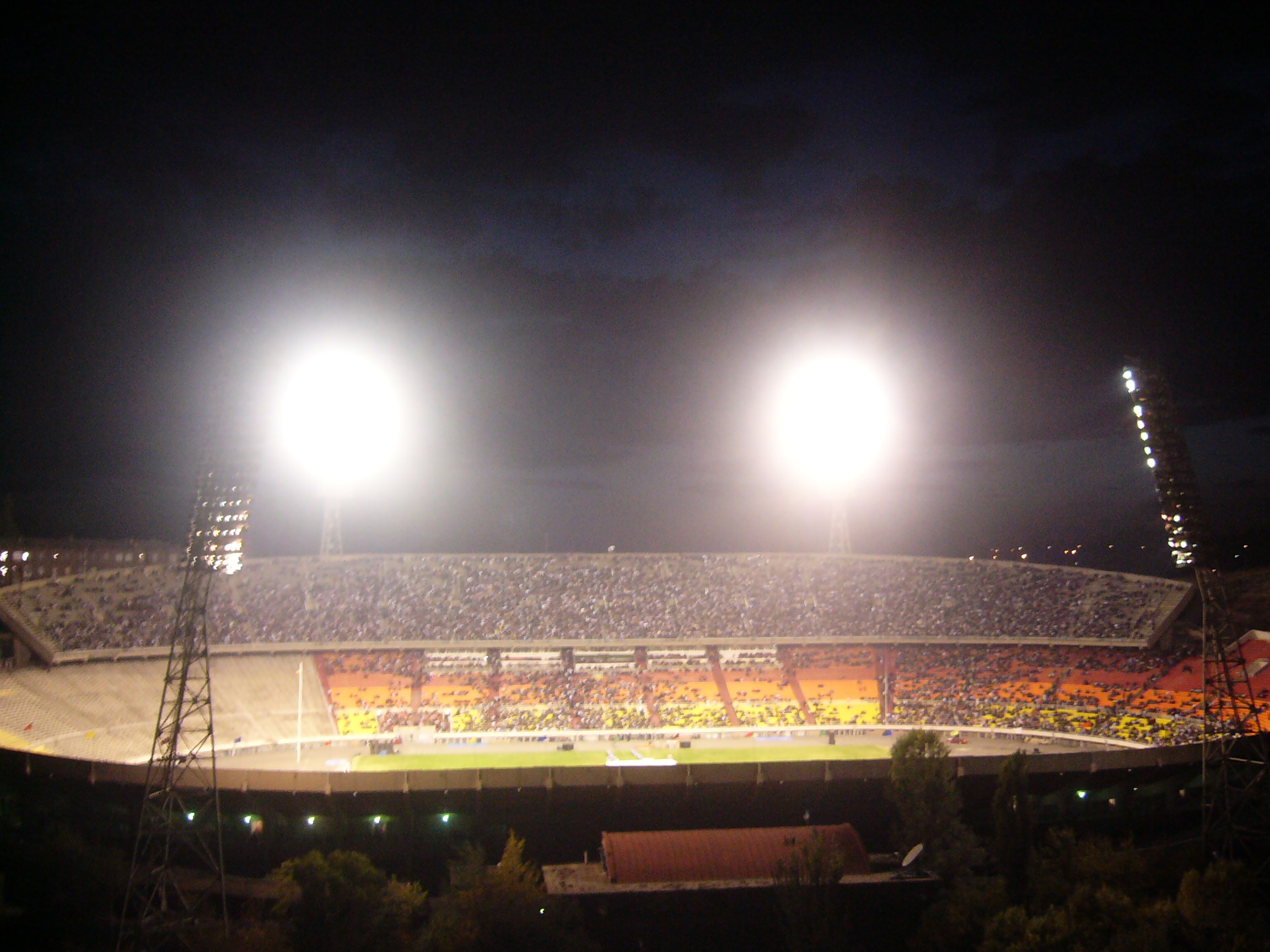 Hrazdan Stadium during the Golden Autumn festival in Yerevan, Armenia, view from Proshyan Street. Photo taken by Eupator in October, 2005.